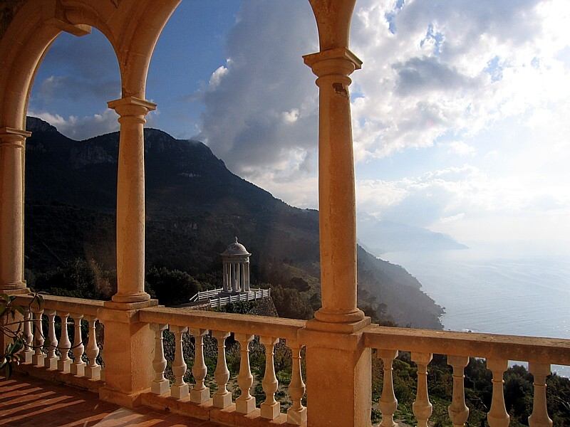 Son Marroig - Mallorca - Spain